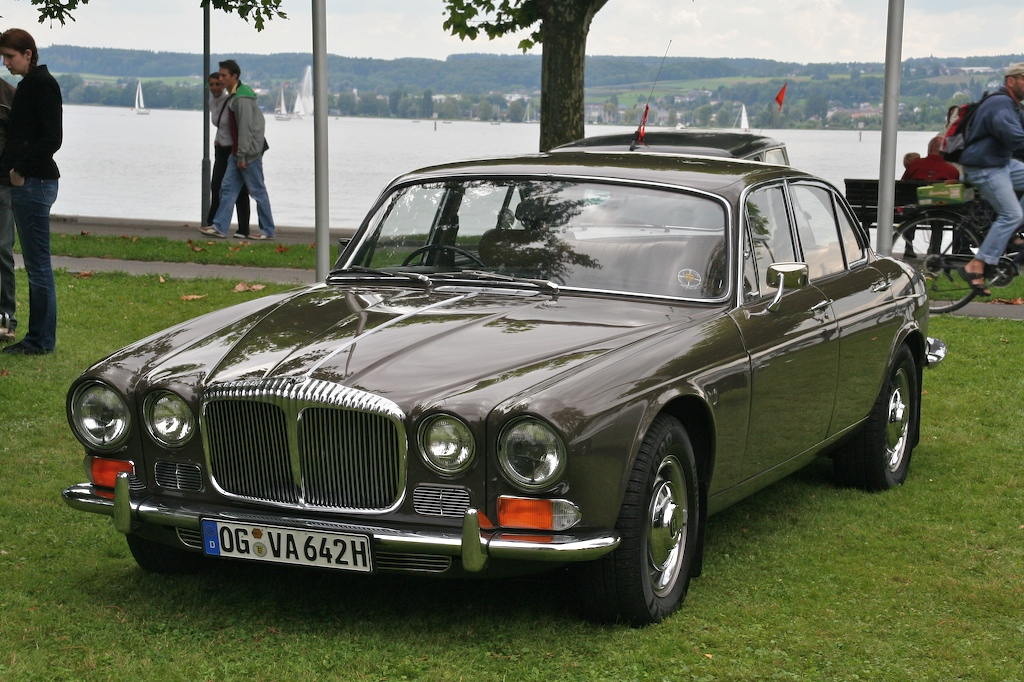 Author: Gerhard van Ackeren, own picture taken at the "oldtimer-brunch" at lake constance/Germany 2007